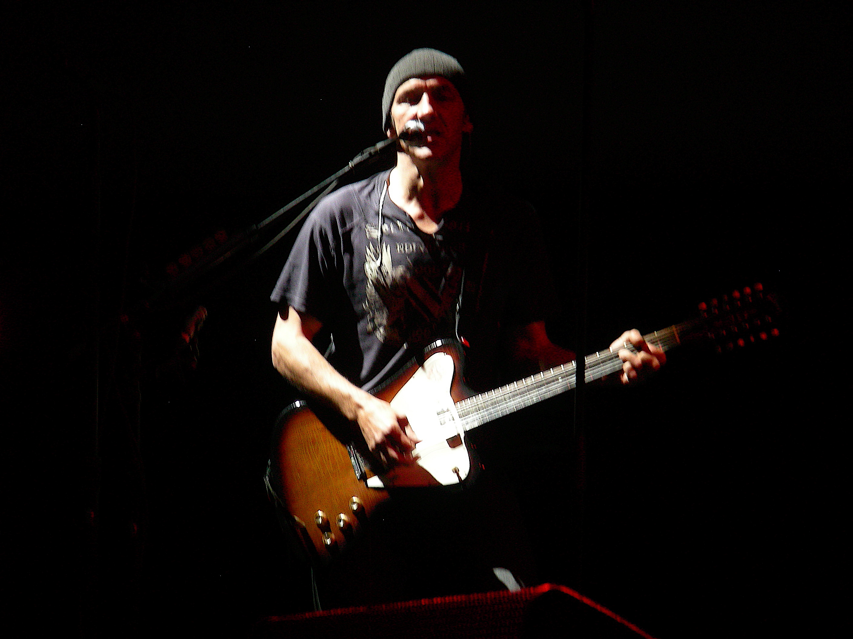 The Who Philadelphia PA Oct. 26, 2008 Simon Townshend (second guitar for The Who)